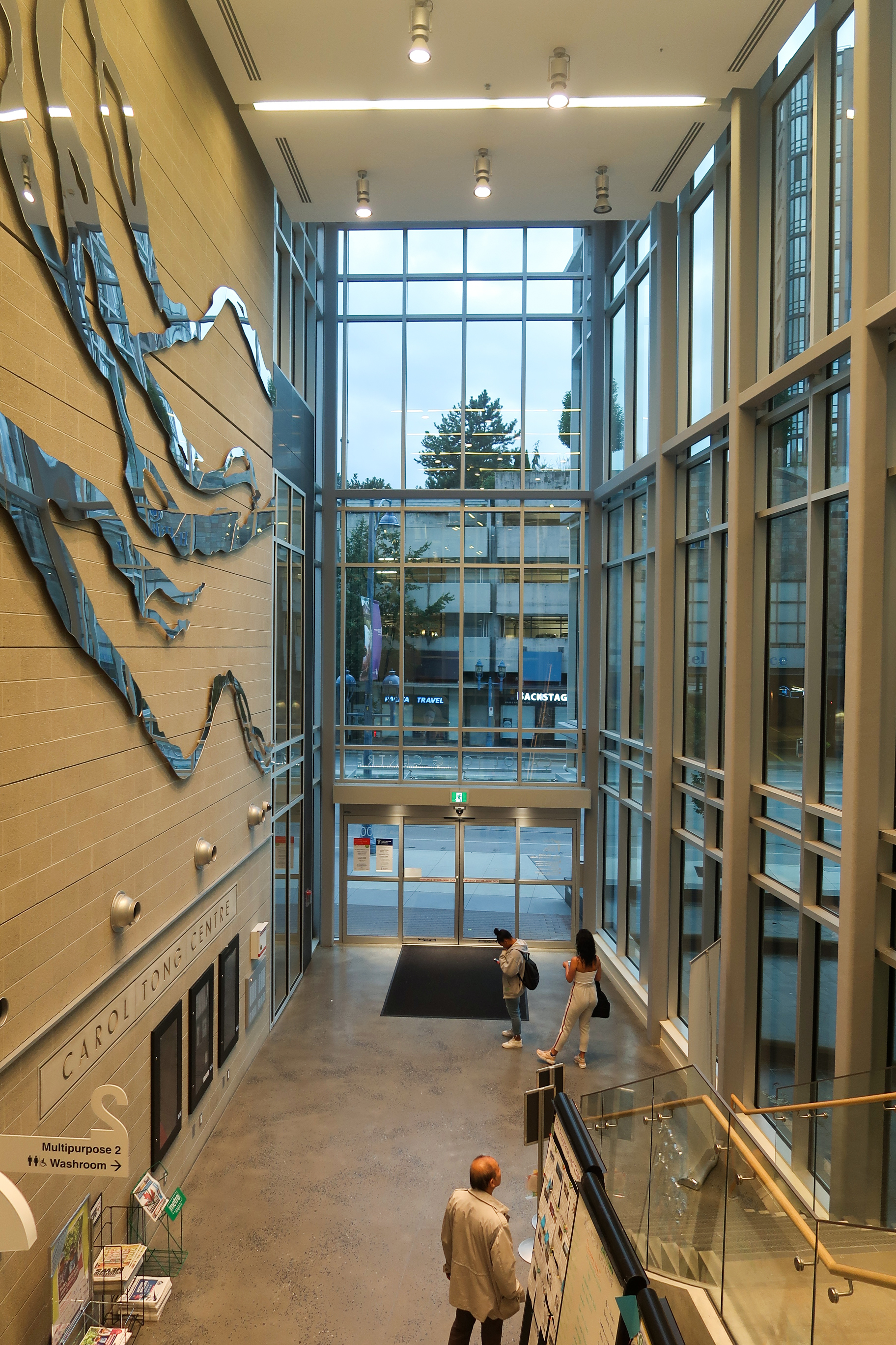 City Centre Community Centre Entrance void